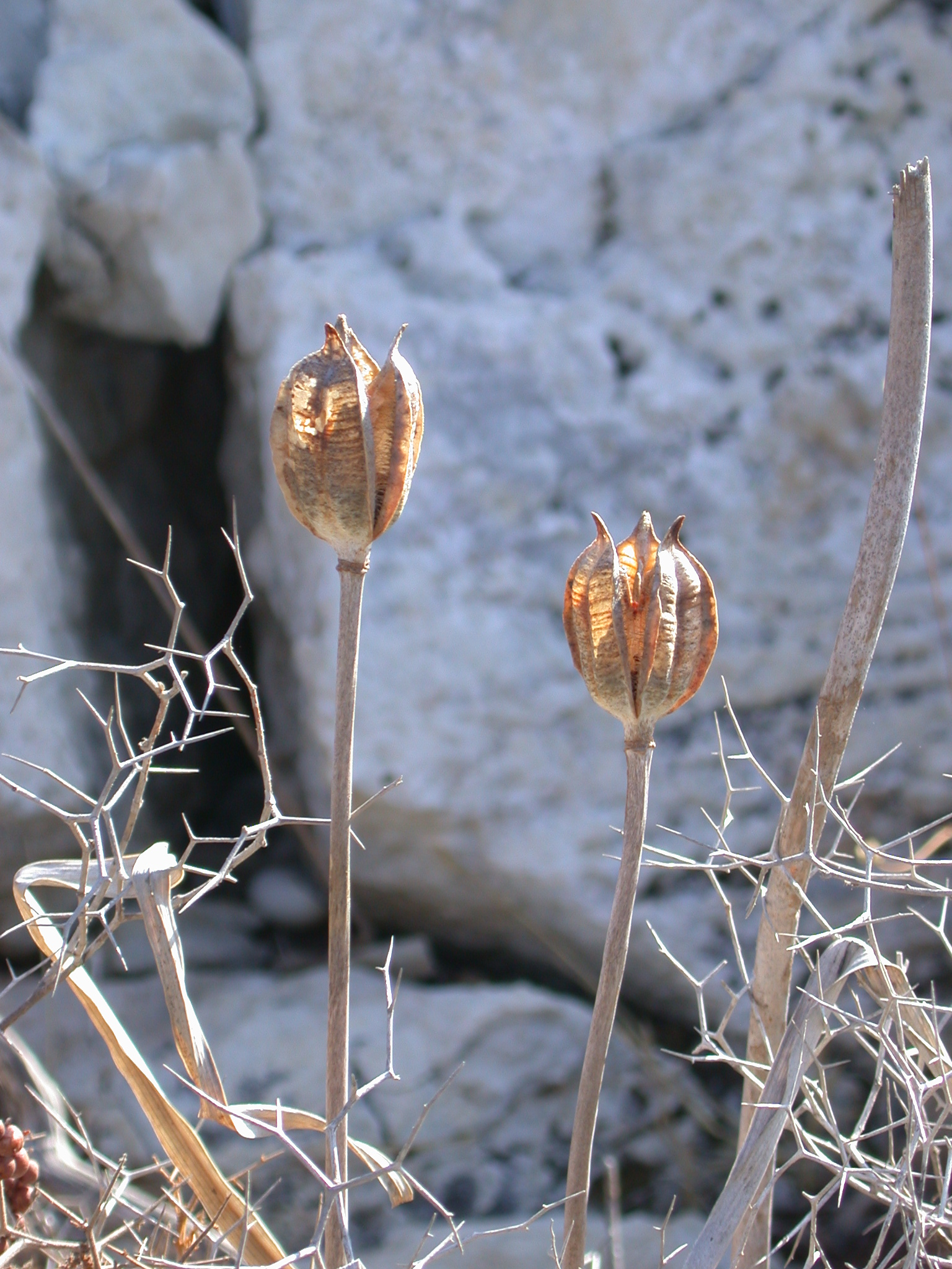 Tulipa agenensis DC. (צבעוני ההרים), dry capsules, Mount Carmel, Israel, October 4, 2006.